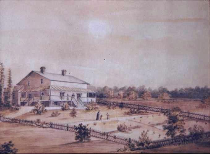 Coffin house at Westfield, New Brunswick, Canada. Watercolour on wove paper, laid down on board.